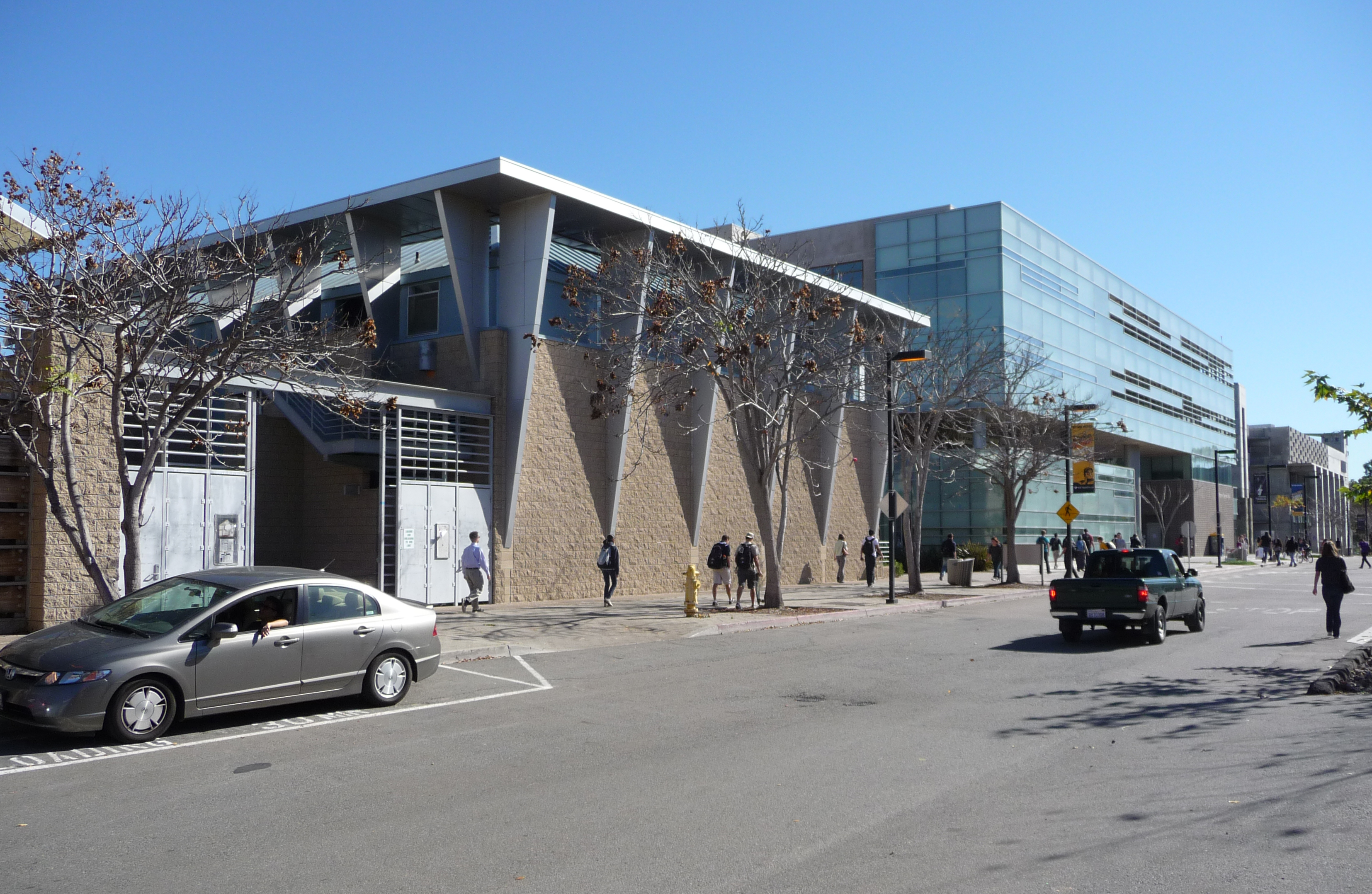 A view of Sixth College at UCSD, including the Visual Arts Facility and Pepper Canyon Hall.